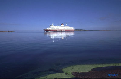 Ferryboat travelling between Sweden and Finland